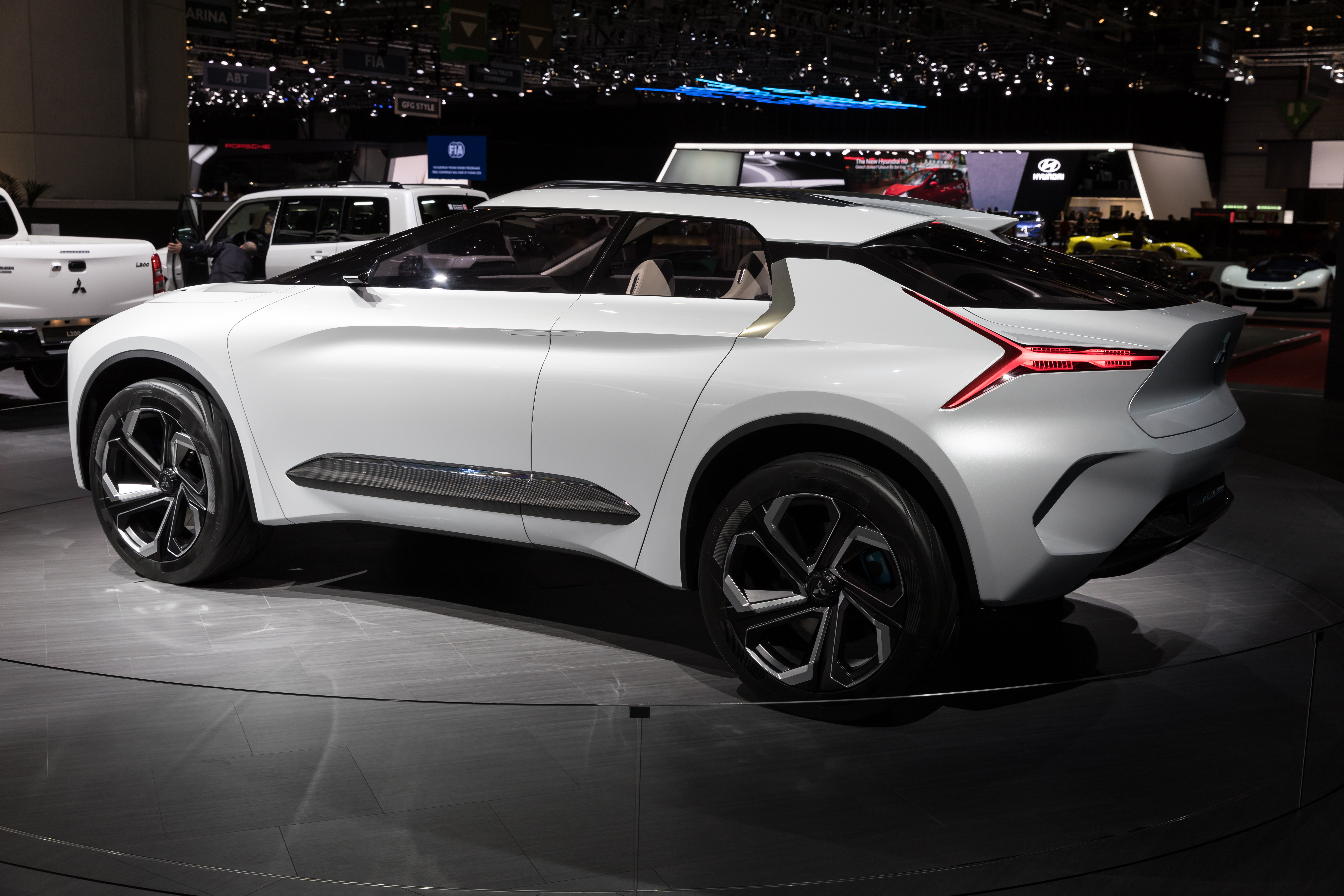 Geneva International Motor Show 2018, Mitsubishi e-Evolution Concept